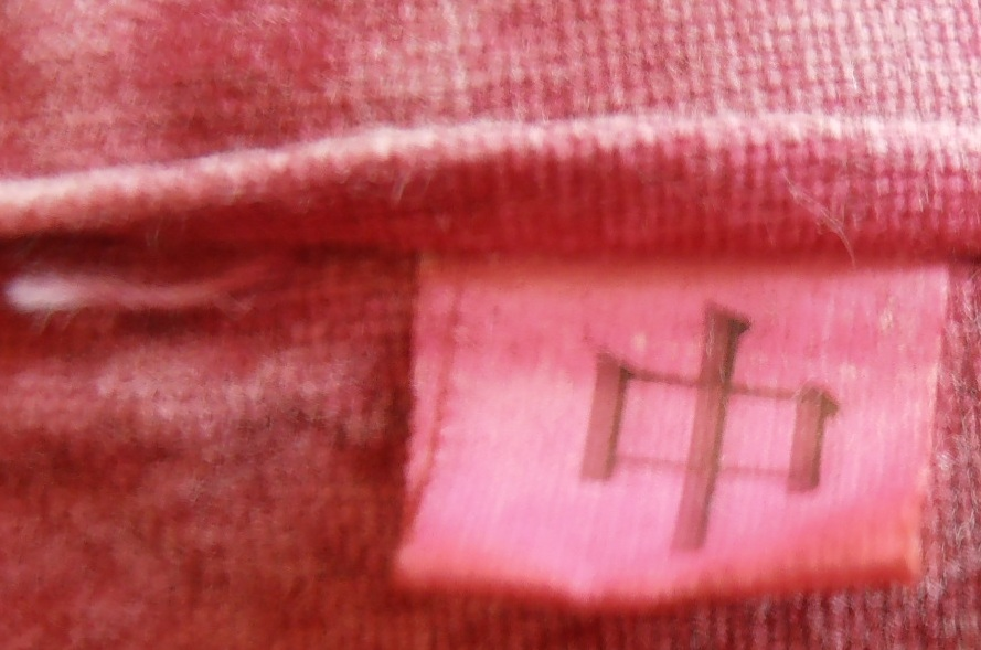 The Chinese glyph 中 (medium) shows the size of a Hanbok